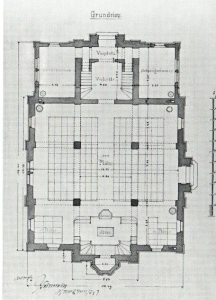 Architect drawing of the synagogue of Ludwigsburg (1884)